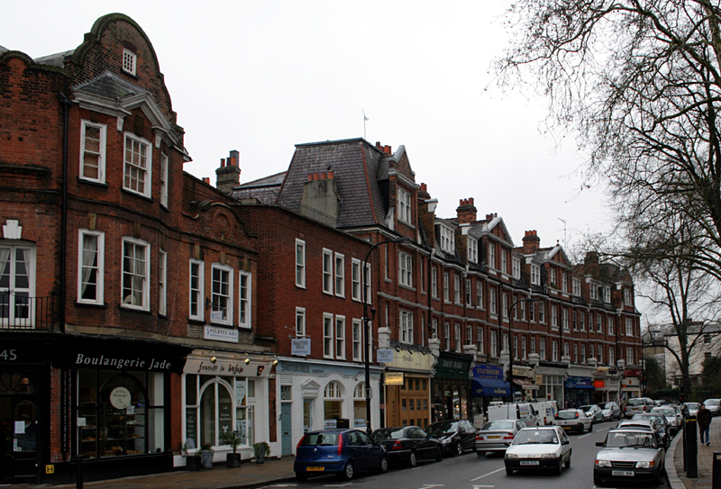 South End Road, Hampstead, London.